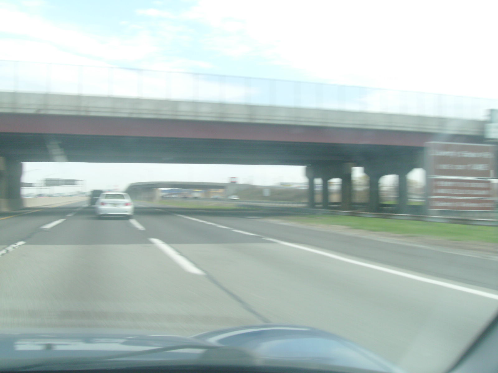 A blurry view of Port Street (former NJ 65) over the New Jersey Turnpike.